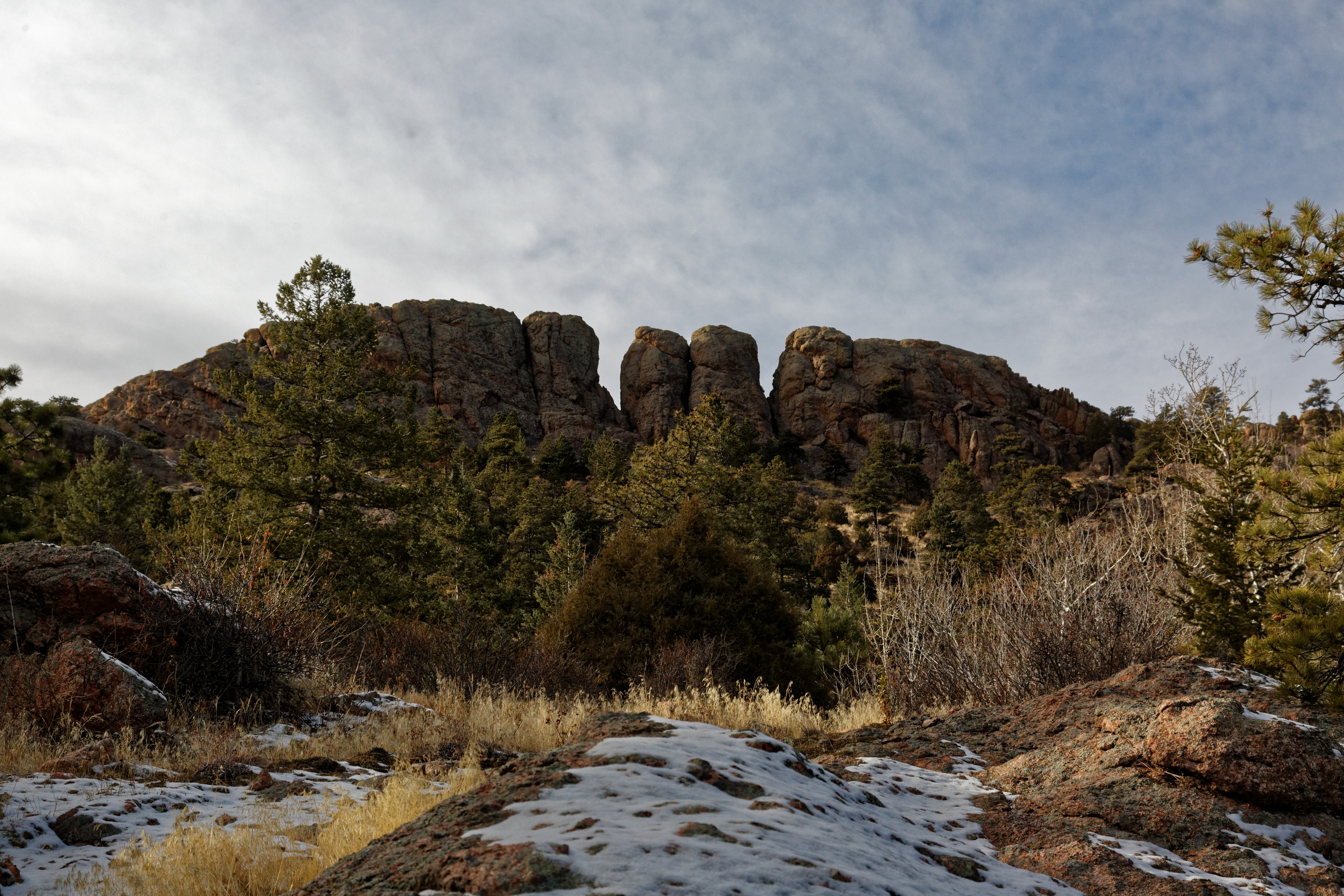 Horsetooth Mountain Park 12-4